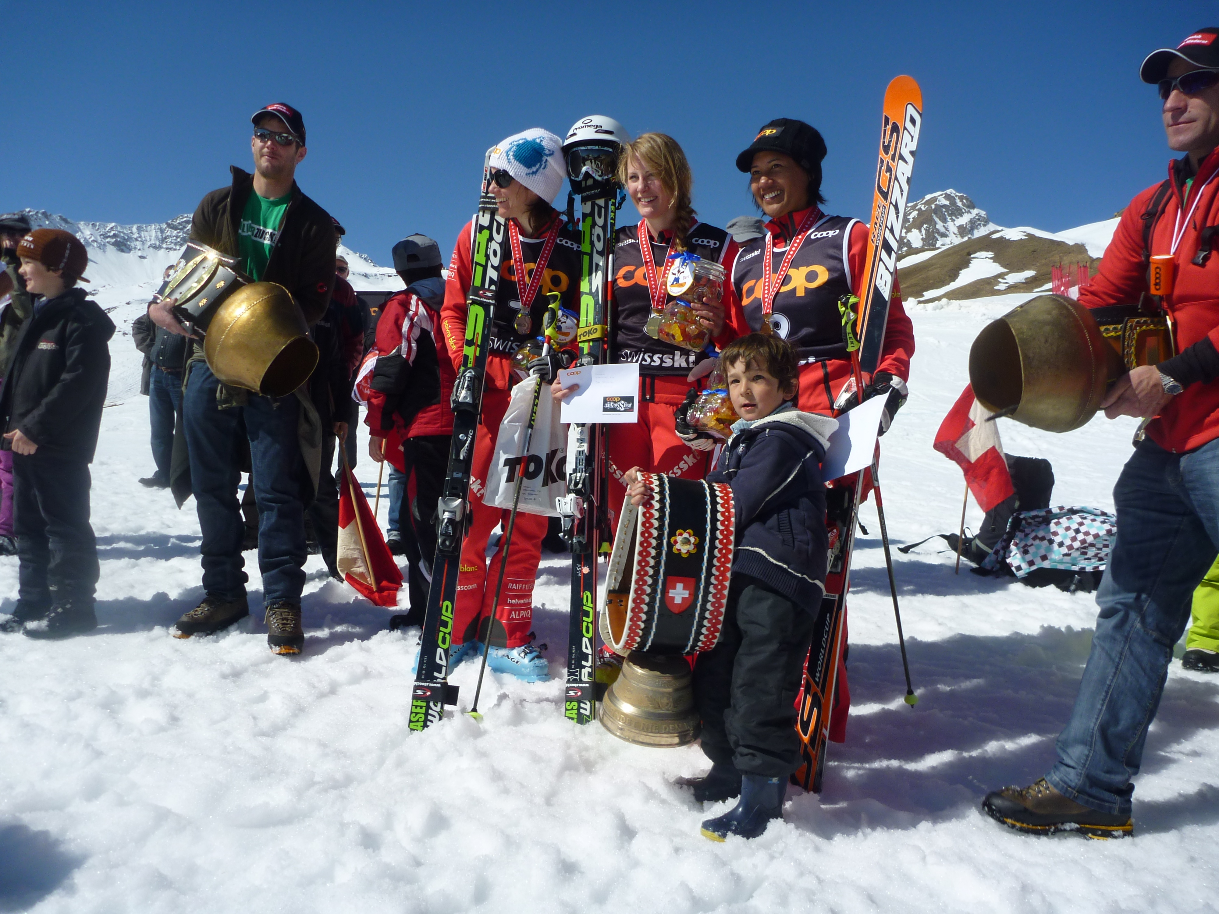 Swiss National Skicross Championships 2011 in Arosa: Fanny Smith (middle), Émilie Sérain (left) and Franziska "Fränzi" Steffen (right)